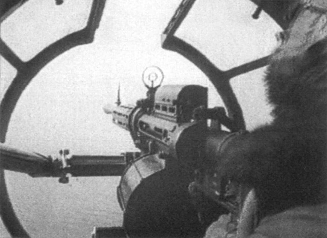 G4M1 Betty tail gun station view